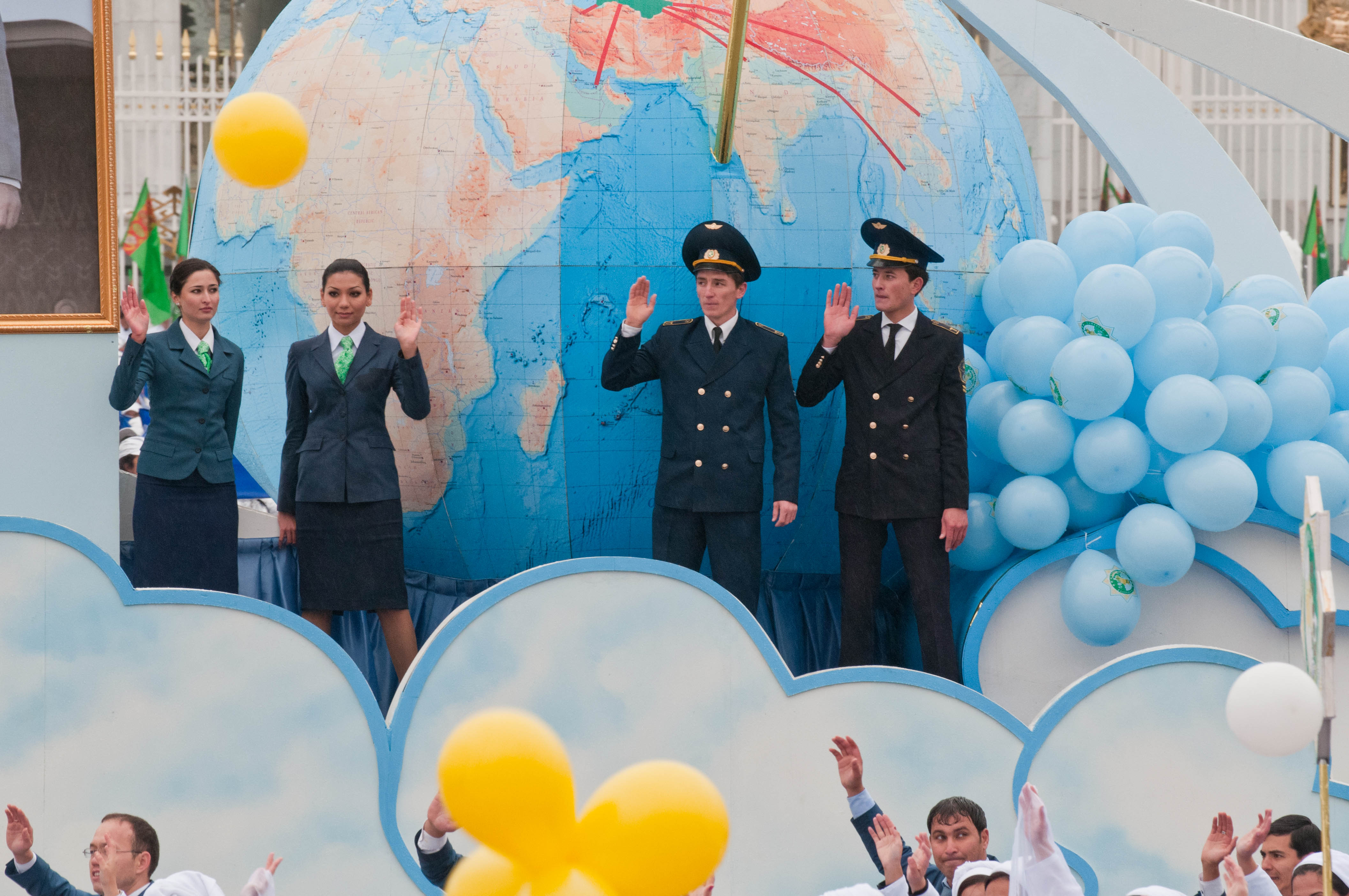 Celebrating the 20th year of independence in Turkmenistan